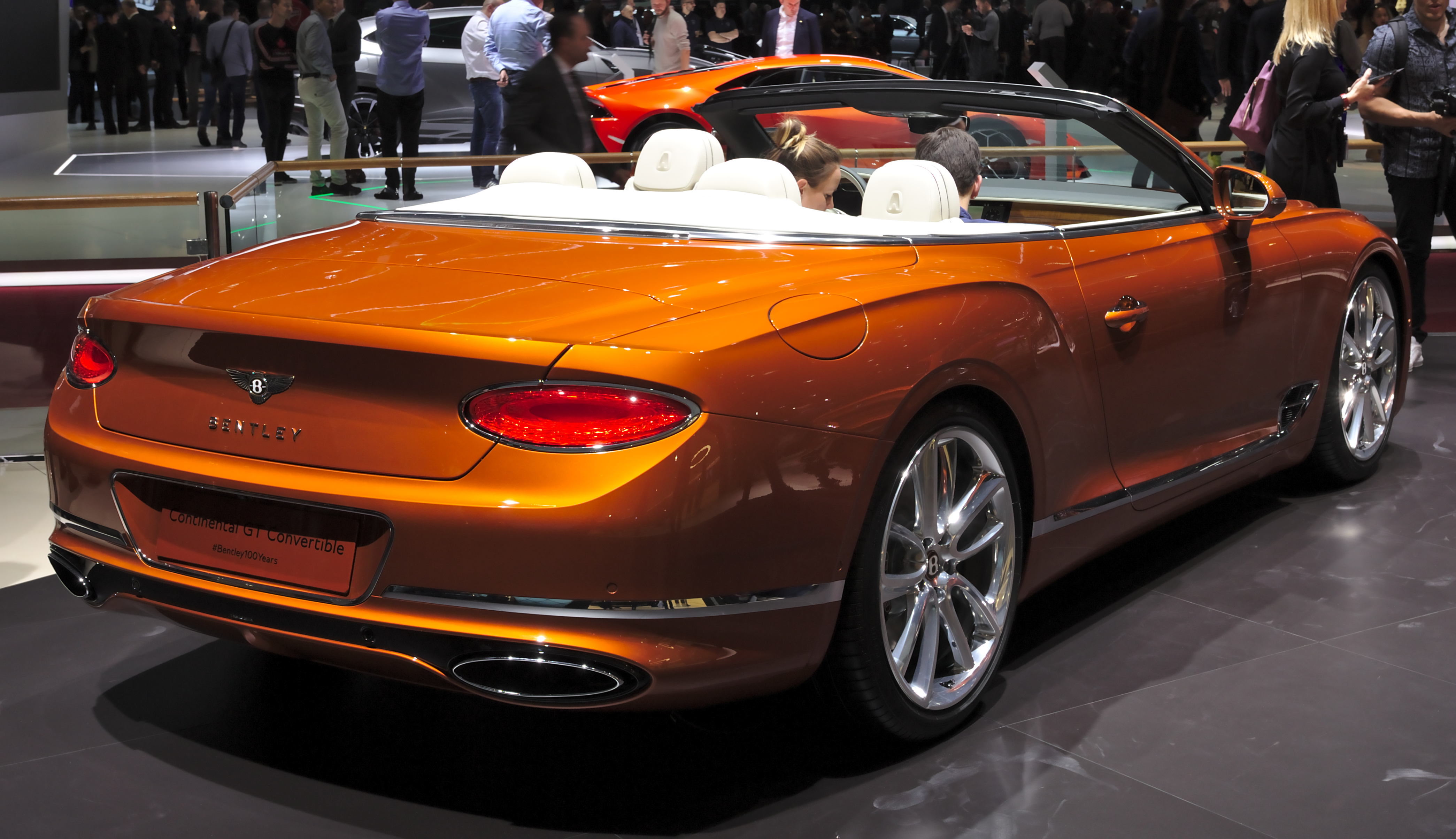 Bentley Continental GTC at Geneva Motor Show 2019